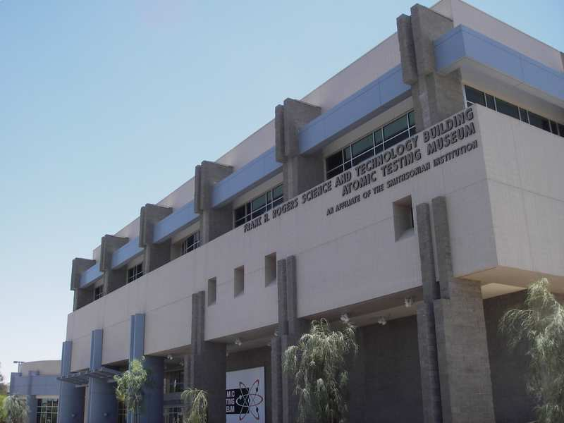 Exterior of the Atomic Testing Museum, Las Vegas